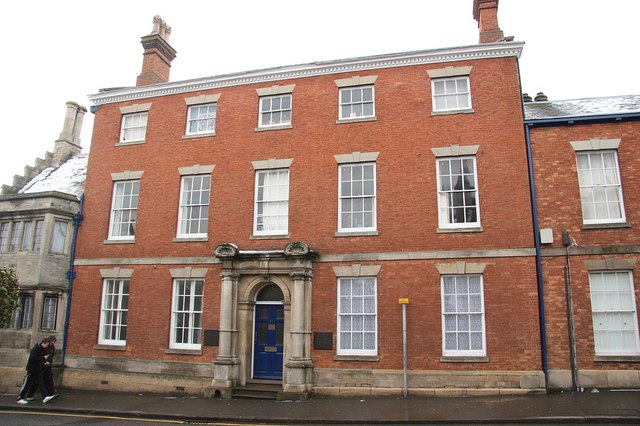 Rhodes House Mid 19th century house attached to the old Manor House on Northgate, Sleaford